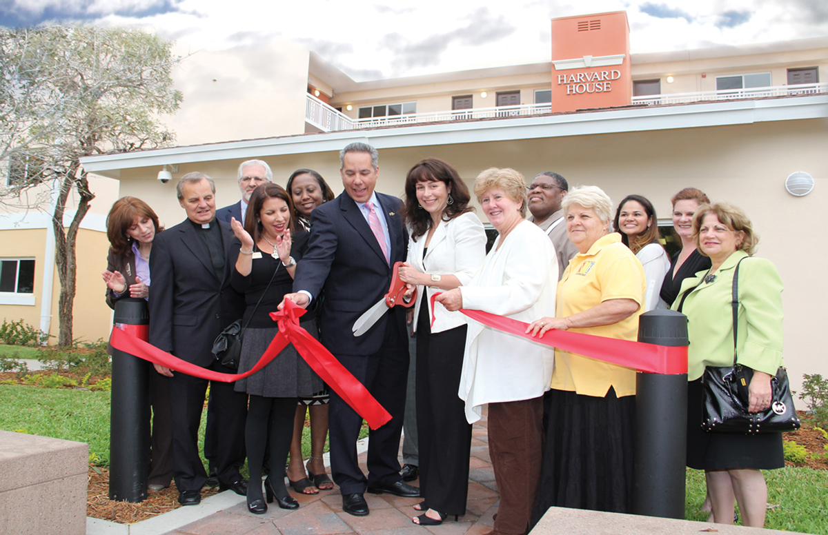 Carrfour CEO Stephanie Berman-Eisenberg cuts the ribbon at the grand opening of Harvard House community in North Miami Beach, Florida.